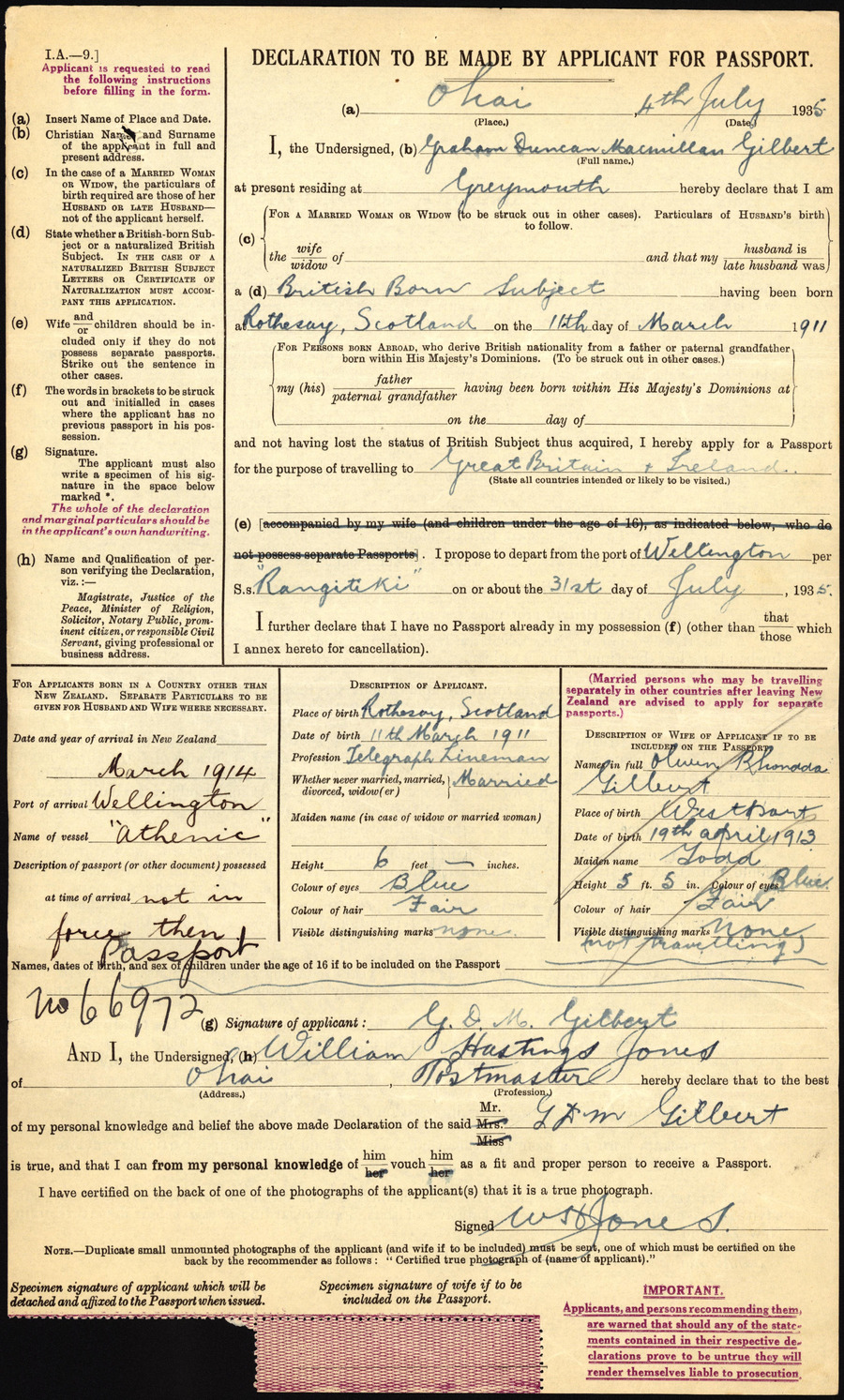 Archives New Zealand Reference: ACGO 8333 IA1 1350 / 15/11/59182